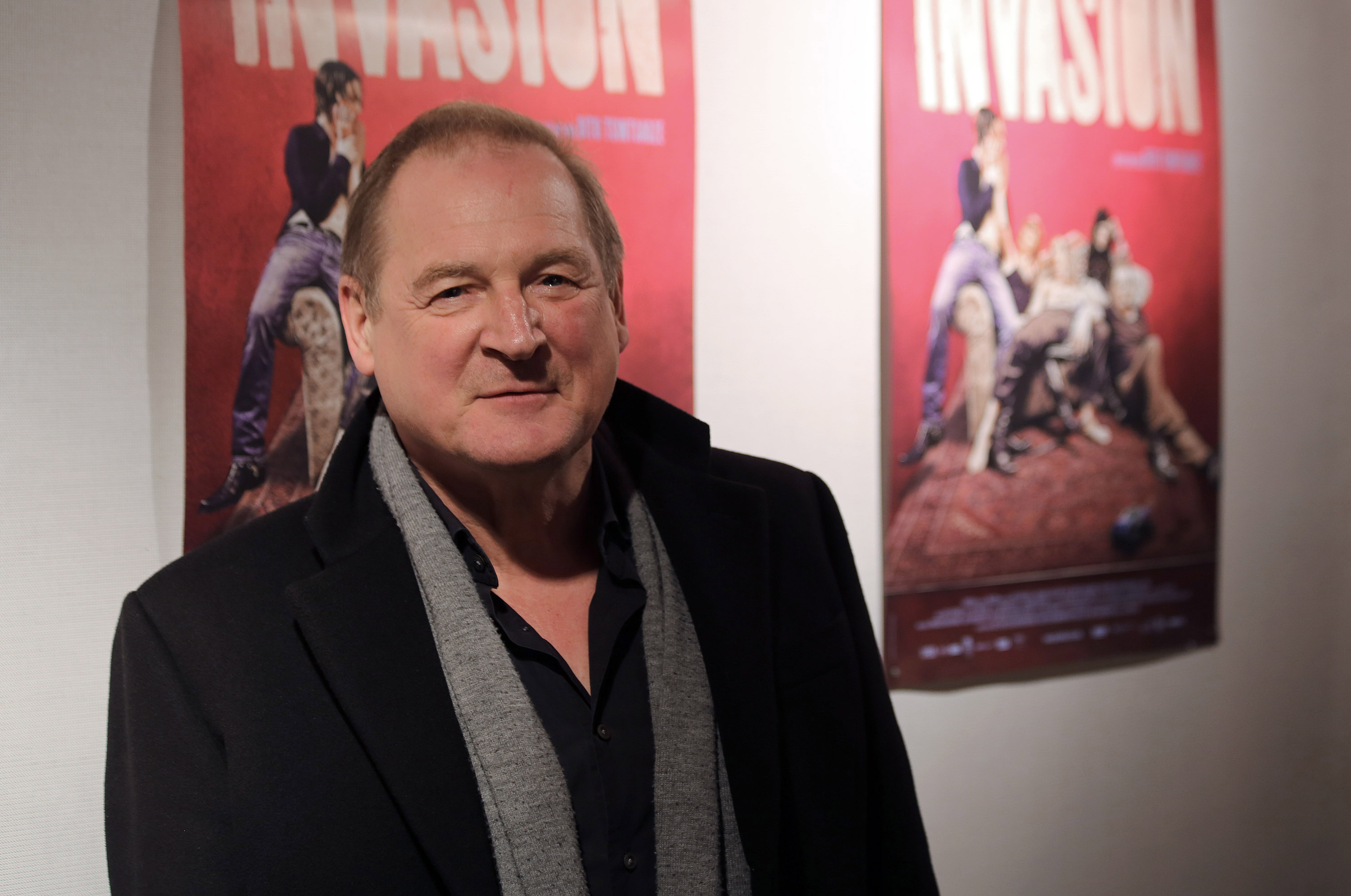 Burghart Klaußner at the Austrian premiere of Dito Tsintsadze's film Invasion at Vienna Künstlerhaus (Vienna, Austria).